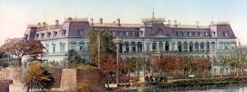 First Imperial Hotel by Yuzuru Watababe